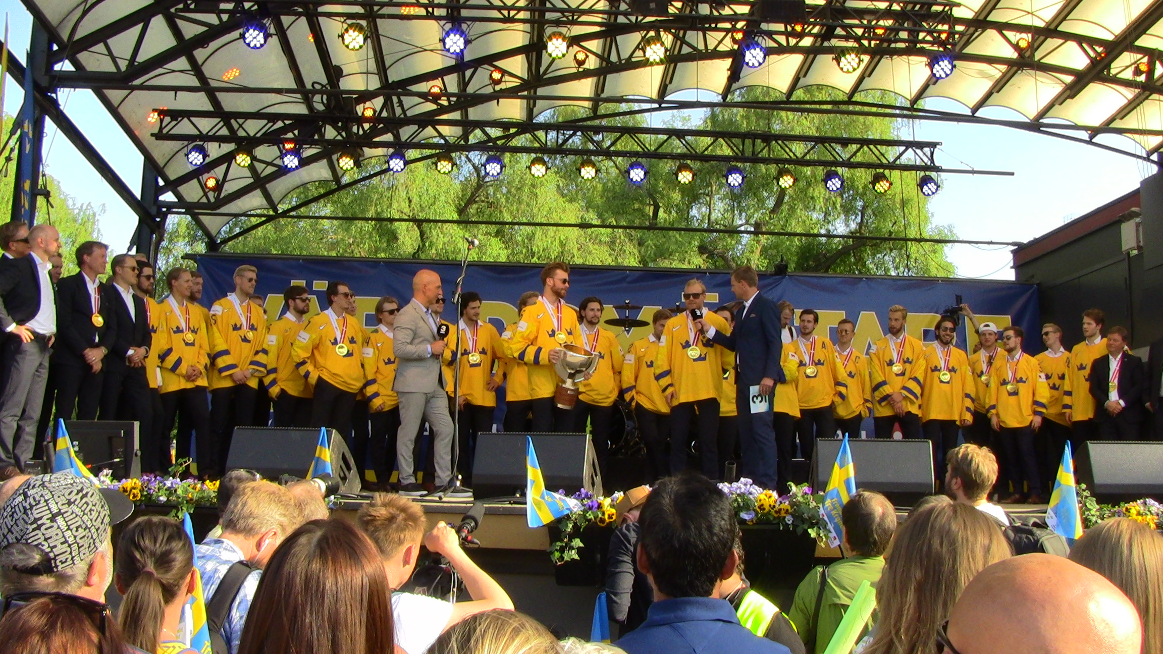 Sweden's men national hockey team at Kungsträgården in 2018.